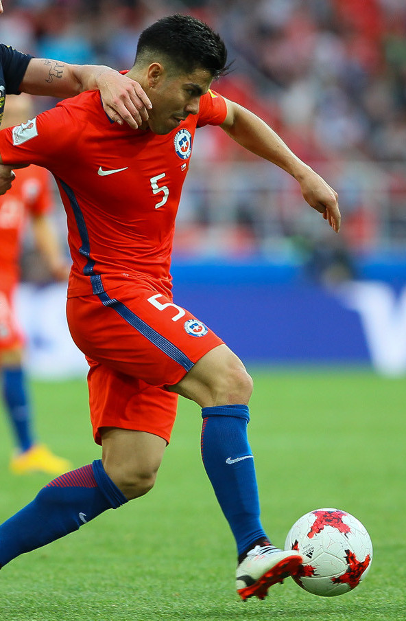 Chile VS. Australia 1 - 1, 25 June 2017